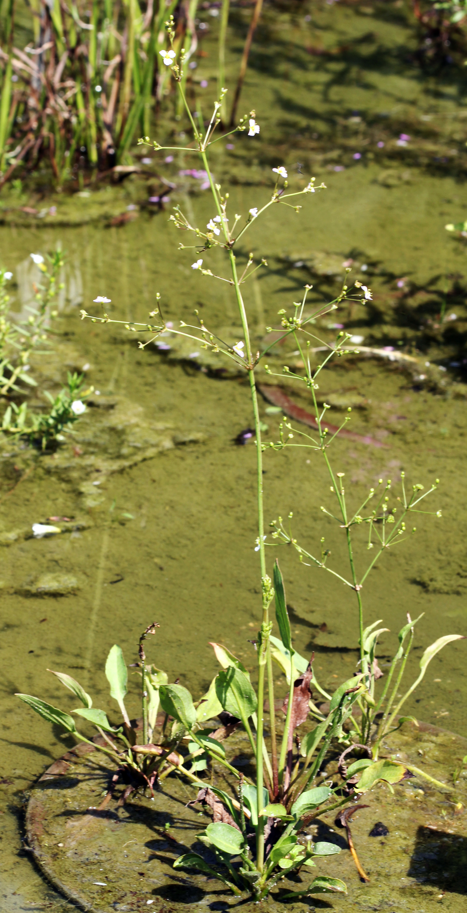 Water plant Alisma lanceolatum, (Alisma lanceolatum), whole plants from the Botanical Gardens of Charles University, Prague, Czech Republic